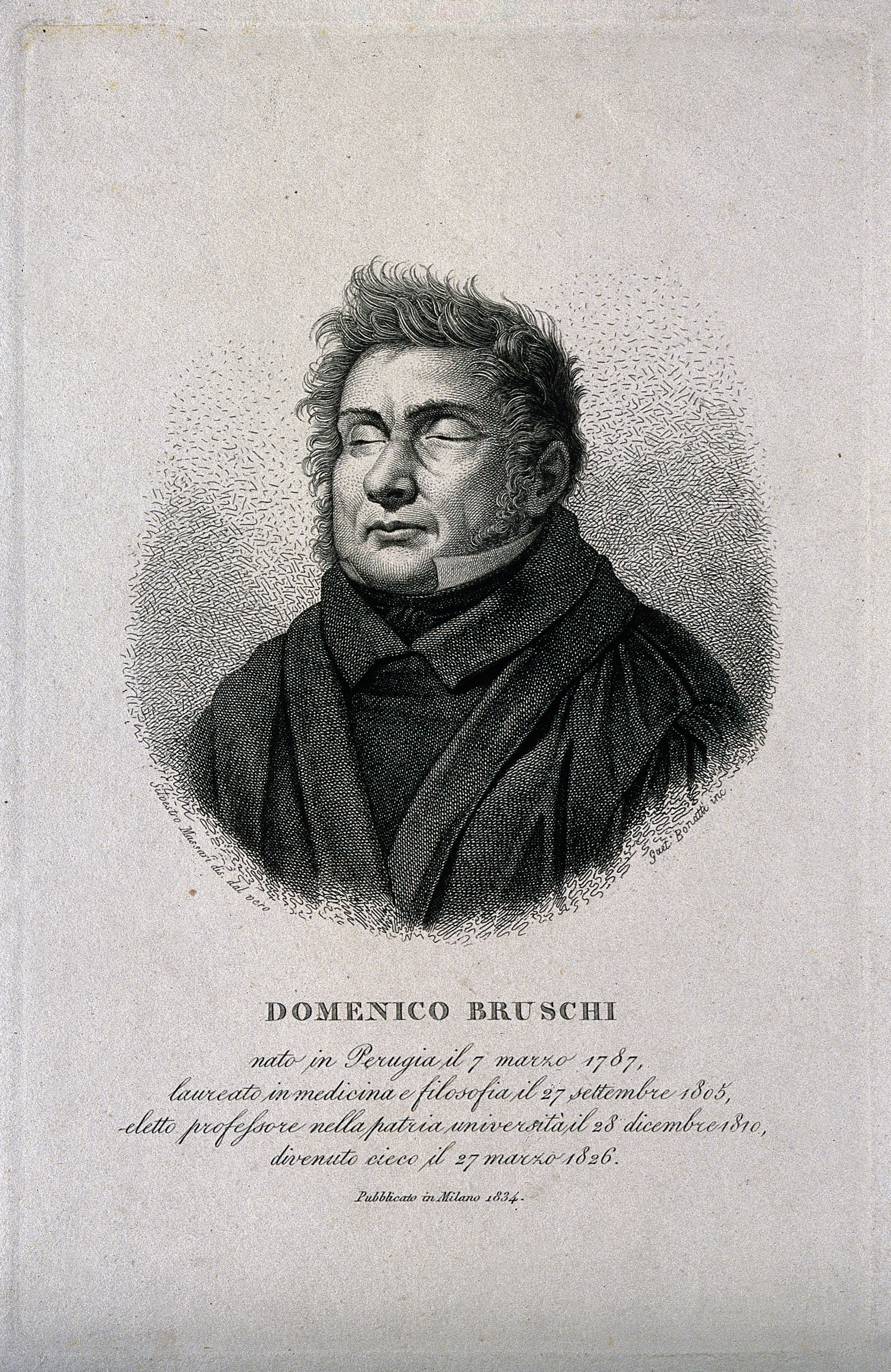 Domenico Bruschi. Line engraving by G. Bonatti, 1834, after S. Massari. Iconographic Collections Keywords: bruschi, domenico, 1787-1863; portrait prints; engravings; Domenico Bruschi